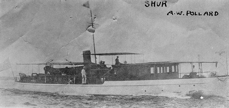 The private motorboat Shur, prior to her United States Navy service as the patrol vessel.